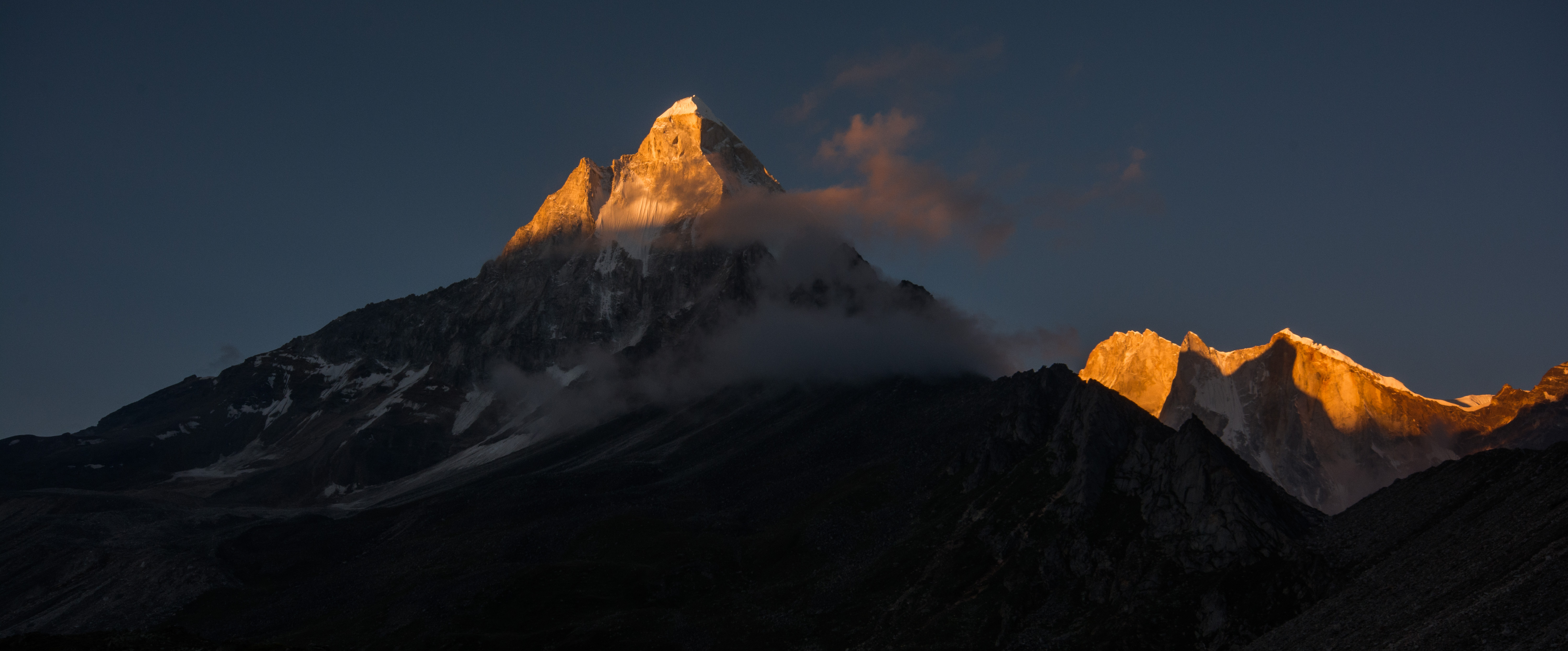 Nature, scenery, geography, mountain peaks North India